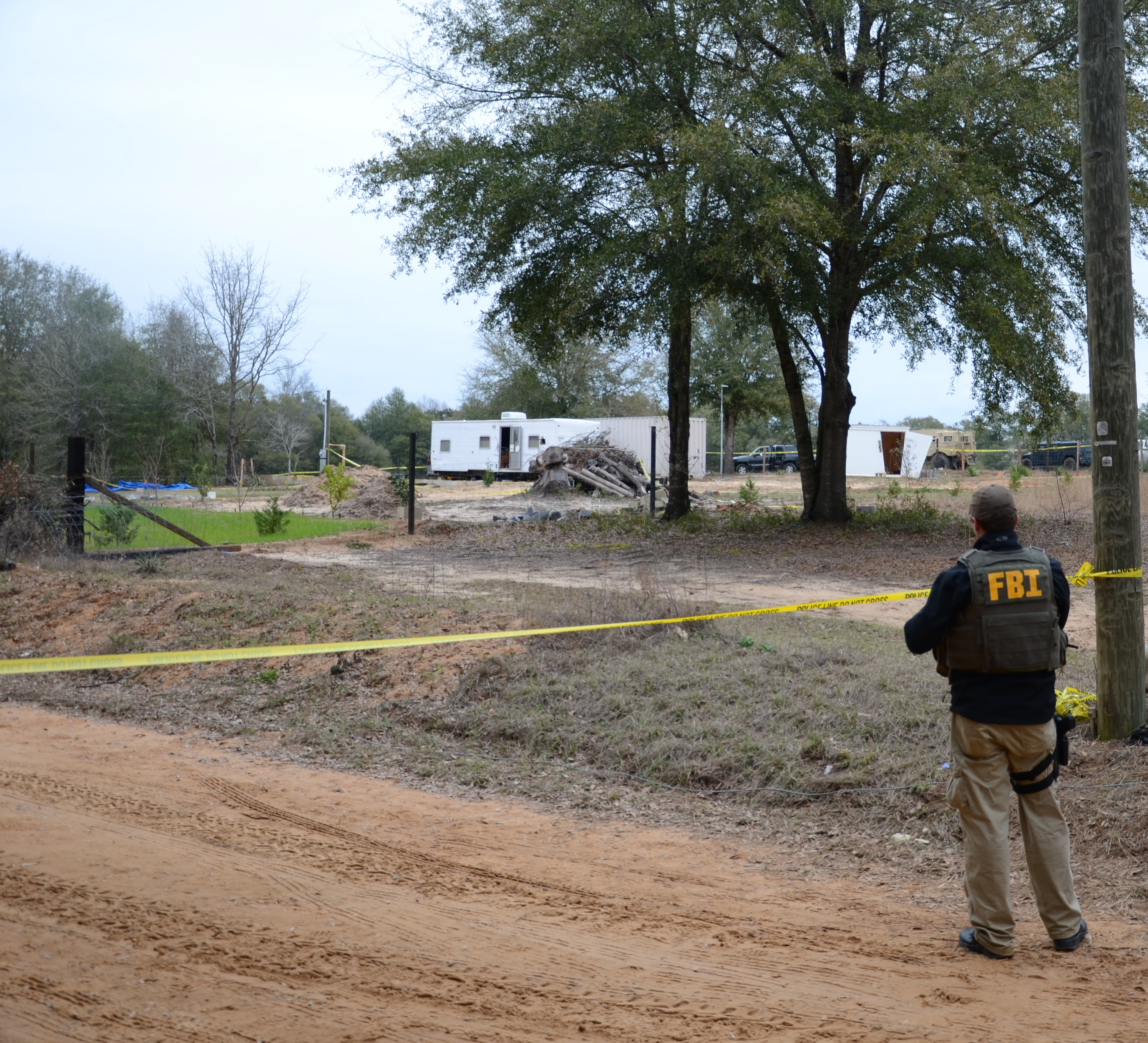 Photo of a FBI agent near the bunker in/near Midland City, where the main part of the en:2013 Alabama school bus driver murder and child abduction took place